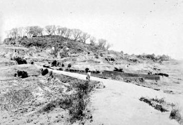 Photograph of the sacred hill of Ambohidratrimo in Imerina, Madagascar